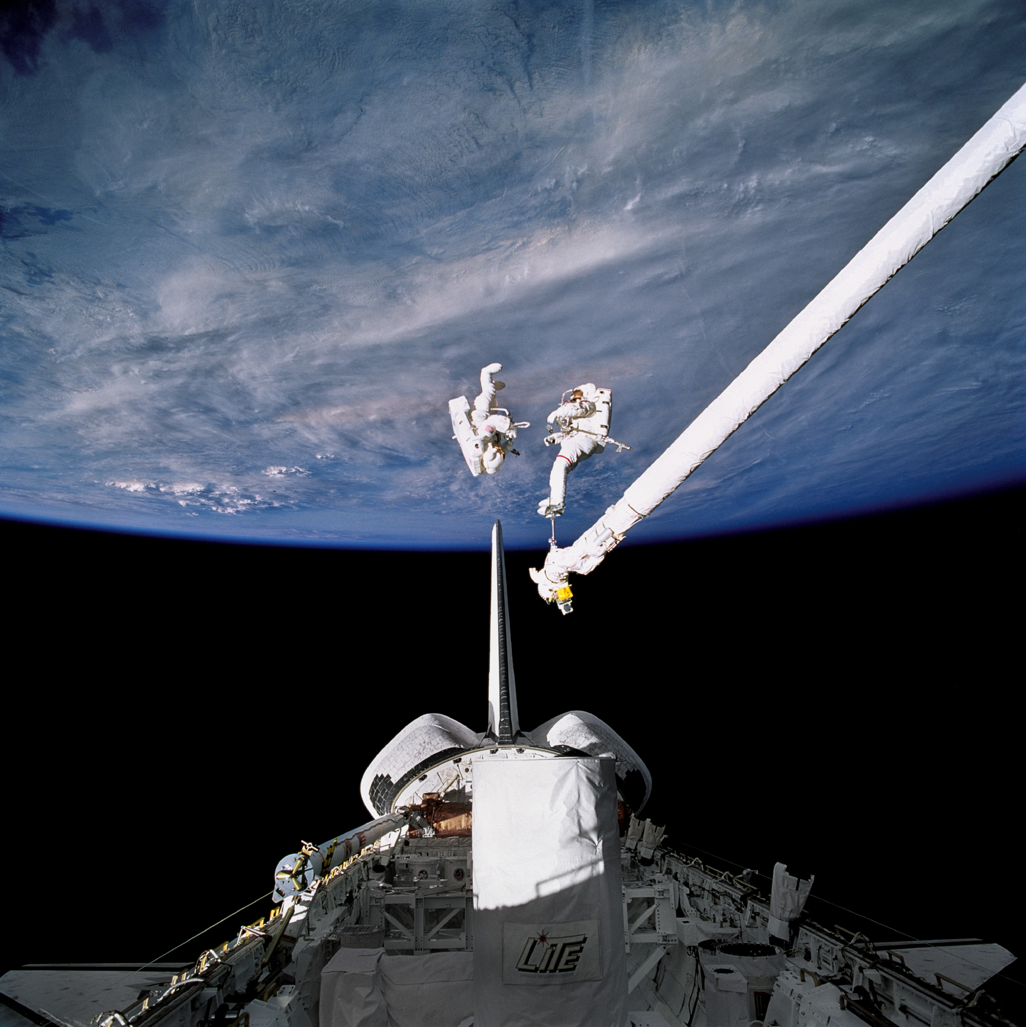 Astronauts Carl J. Meade and Mark C. Lee (red stripe on suit) test the new Simplified Aid for EVA Rescue (SAFER) system some 130 nautical miles above Earth. The pair was actually performing an in-space rehearsal or demonstration of a contingency rescue using the never-before flown hardware. Meade, who here wears the small back-pack unit with its complementary chest-mounted control unit, and Lee (anchored to the space shuttle Discovery's Remote Manipulator System (RMS) robot arm) took turns using the SAFER hardware during their shared Extravehicular Activity (EVA) of Sept. 16, 1994. The test was the first phase of a larger SAFER program leading finally to the development of a production version for future shuttle and space station applications.